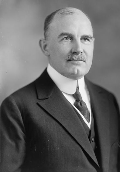 Benjamin L. Fairchild, New York Congressman